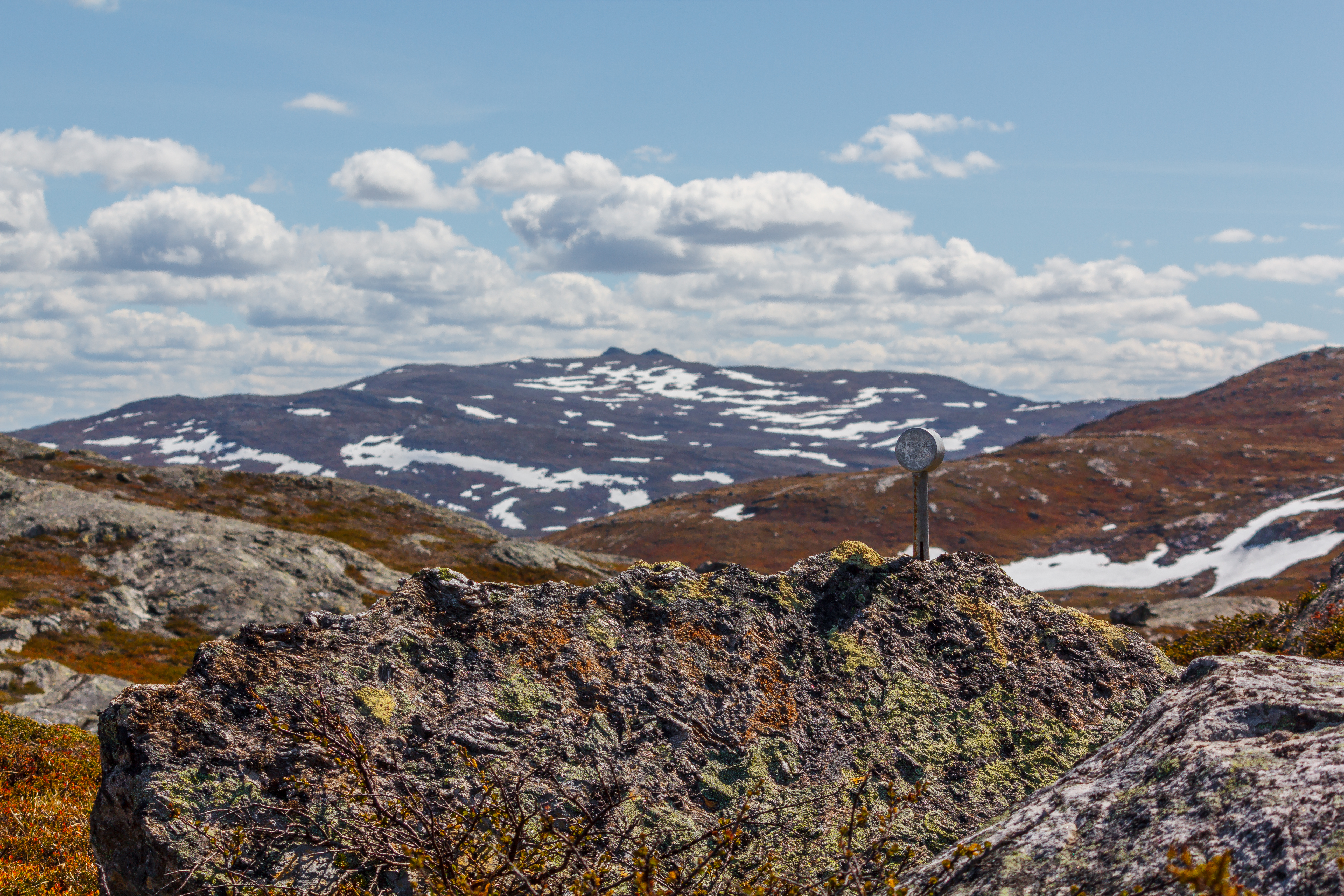 Border marker in metal, nr 125, for Lierne National Park. In the background characteristic mountain top Akavassøran